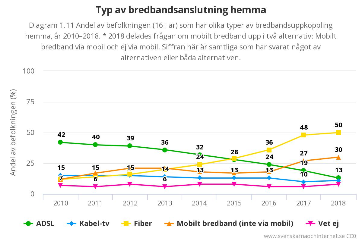 Andel av den svenska befolkningen (16+ år) som har olika typer av bredbandsuppkoppling hemma, år 2010–2018.